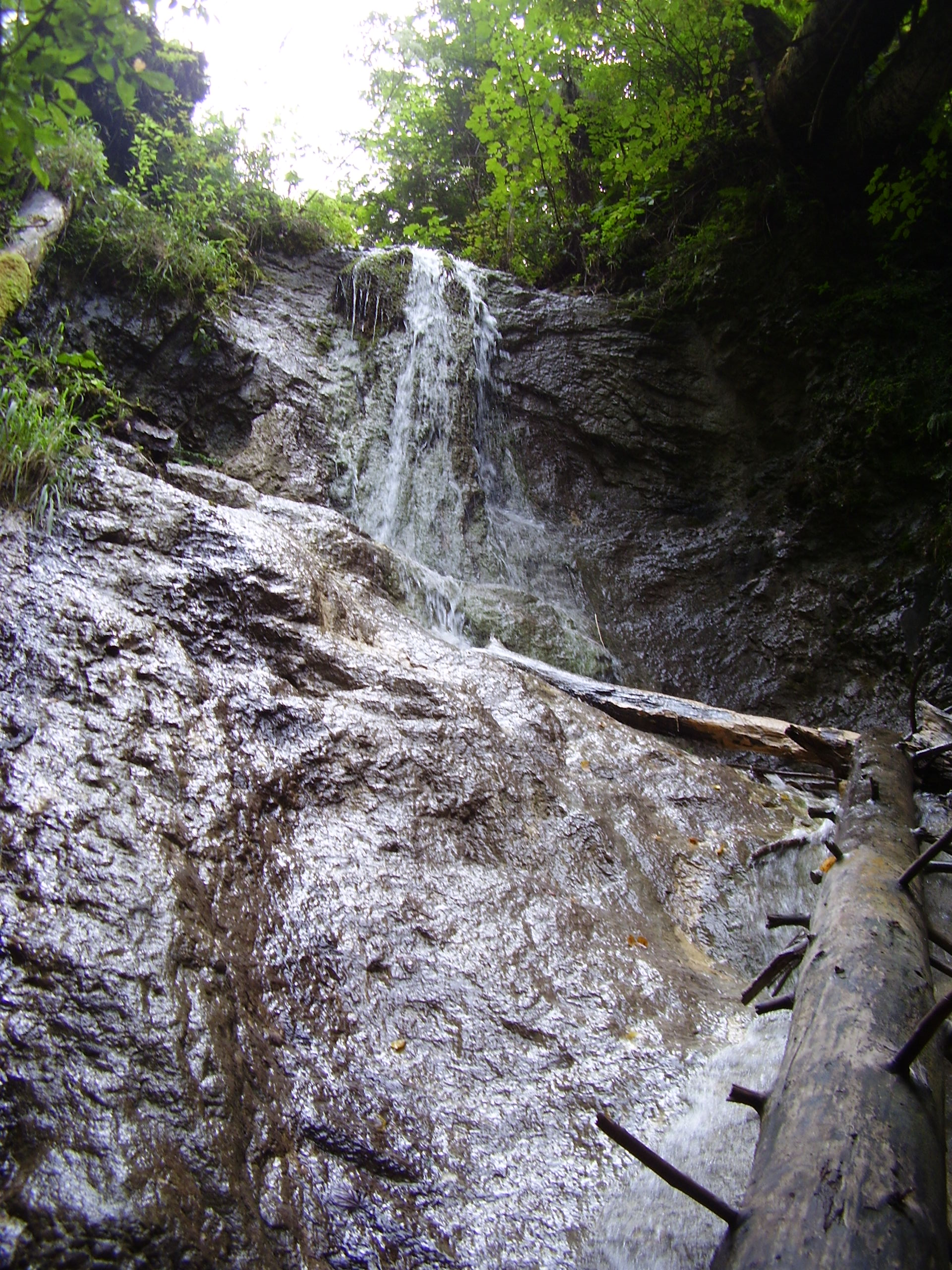 Strakov waterfall in Kláštorská roklina, Slovak paradaise